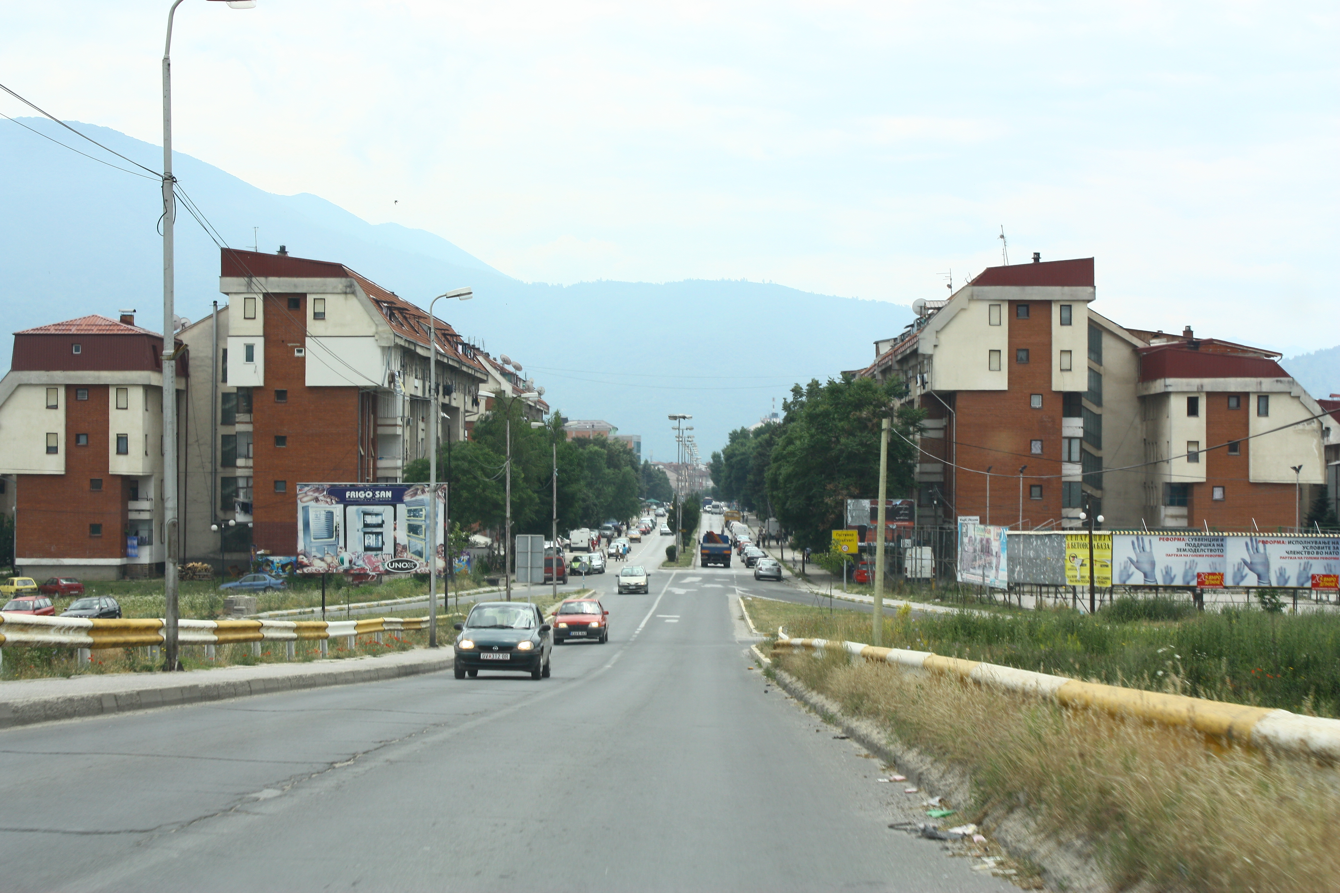 Maleardi quarter in Gostivar, Macedonia